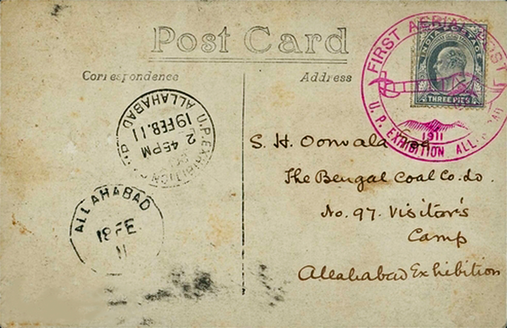 Post Card with stamp "First Aerial Post - 1911 - U. P. Exhibition Allahabad"